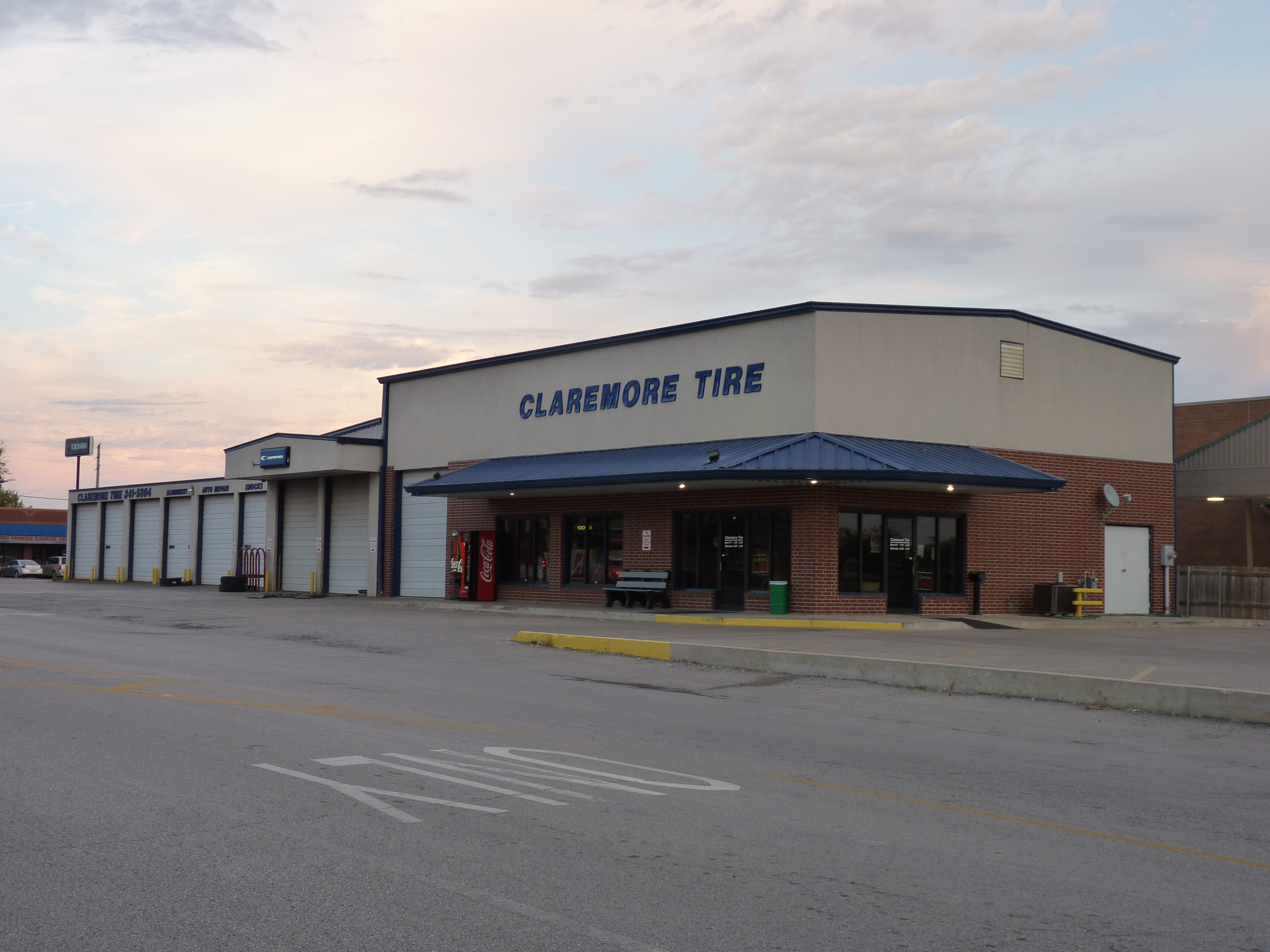 The location of the former Claremore Auto Dealership, now used as Claremore Tire.